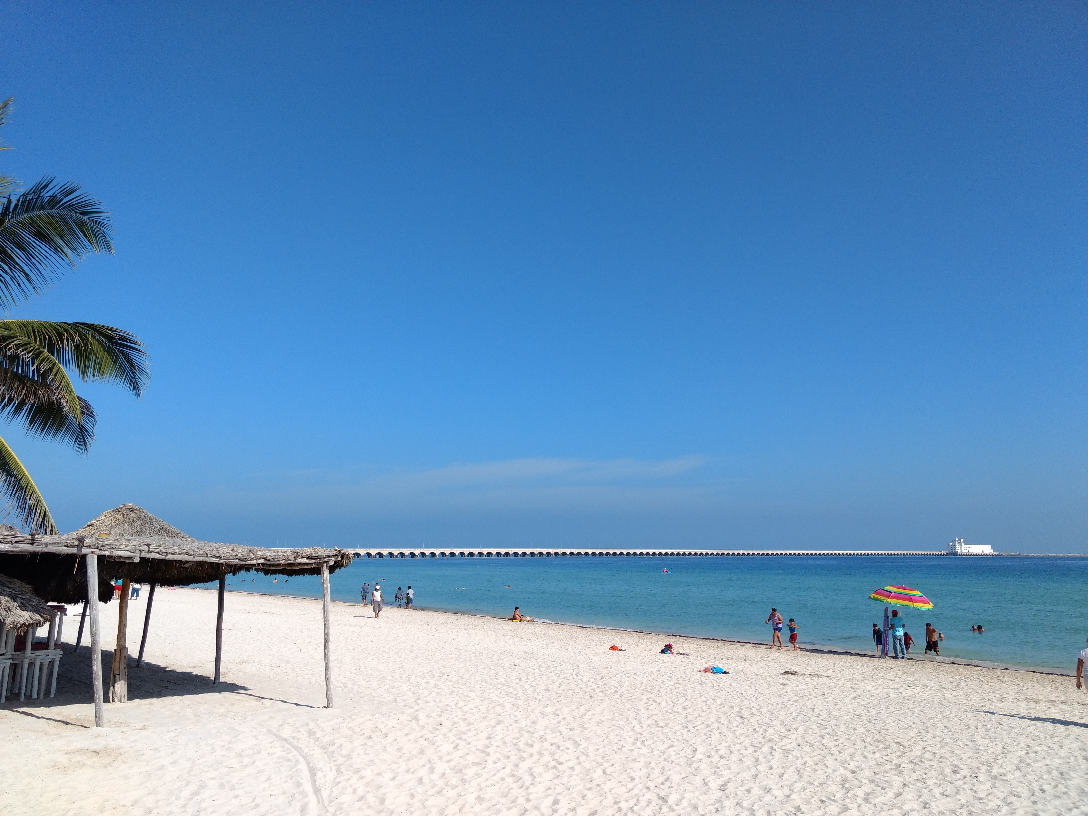 Beach of Port Progreso, city located in the homonym municipality at the mexican state of Yucatan.